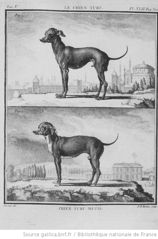 Hairless Dog